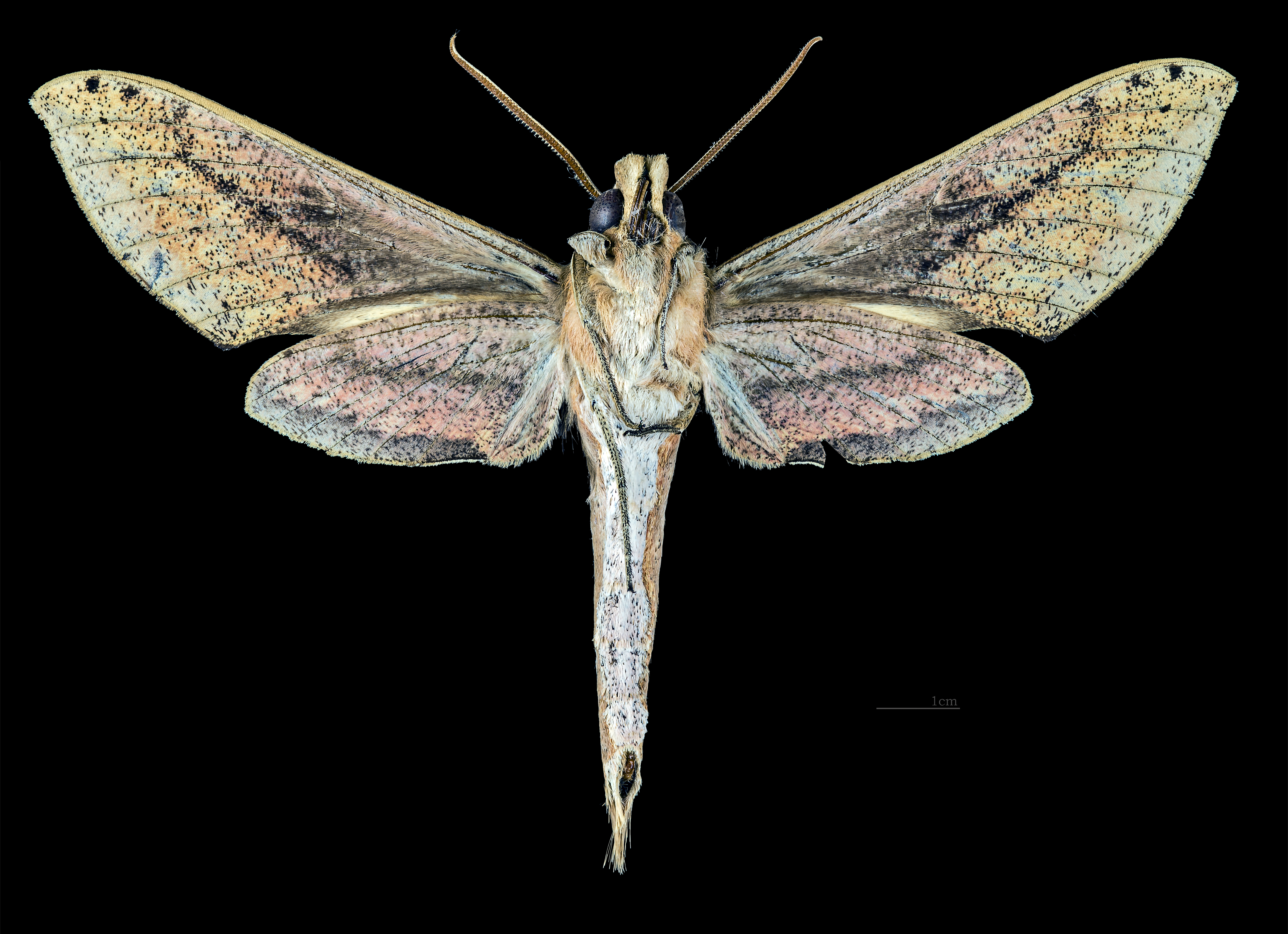 Xylophanes isaon - △ Ventral side